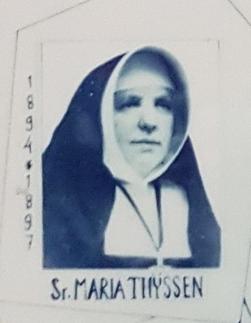 Convent of the Sisters of Mercy of St. Borromeo (Zusters Onder de Bogen) in Maastricht, the Netherlands. Here is a detail of a chart of the congregation's mother superiors. Mother Maria Thijssen was superior from 1894-97.